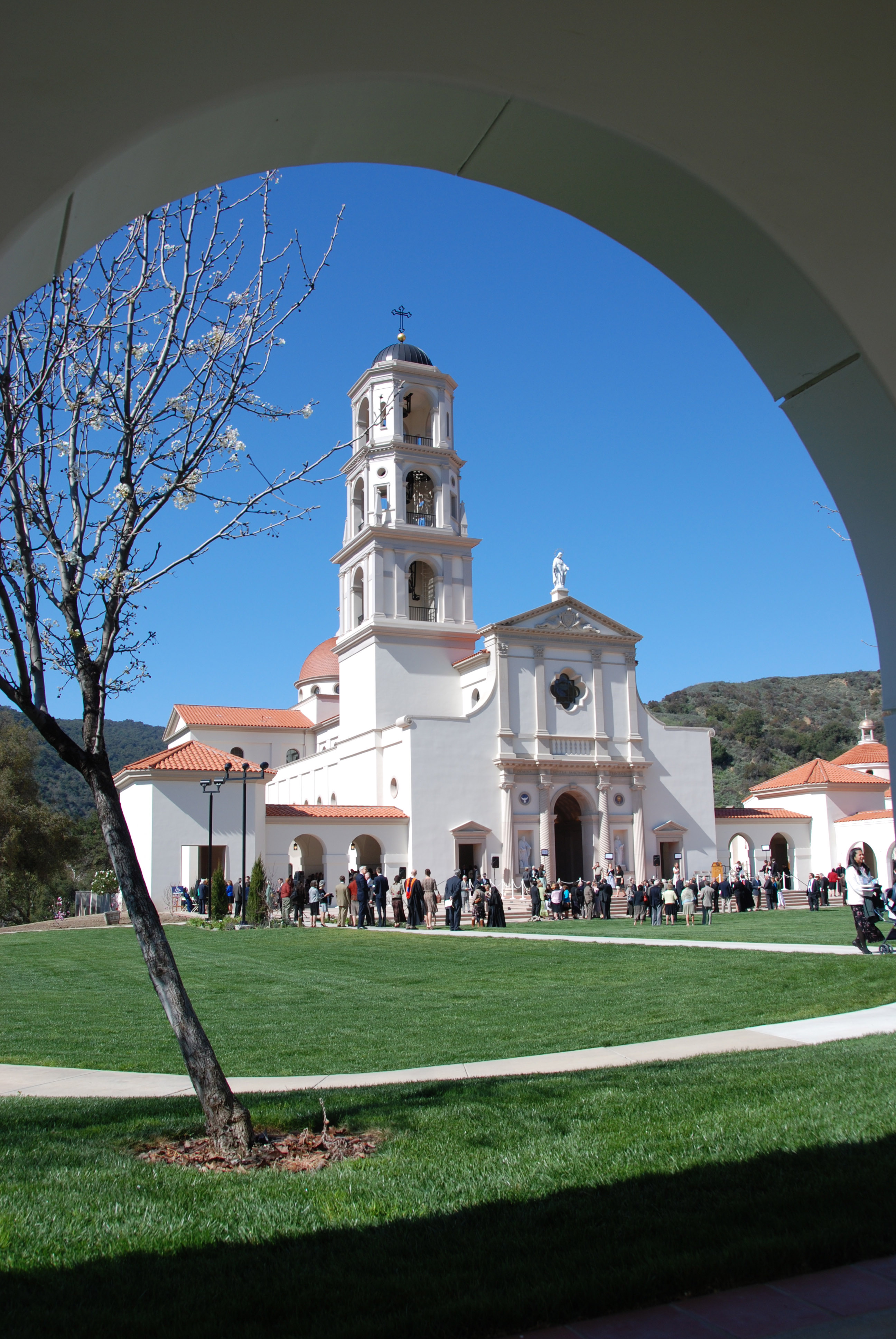 View of the Thomas Aquinas College Chapel.